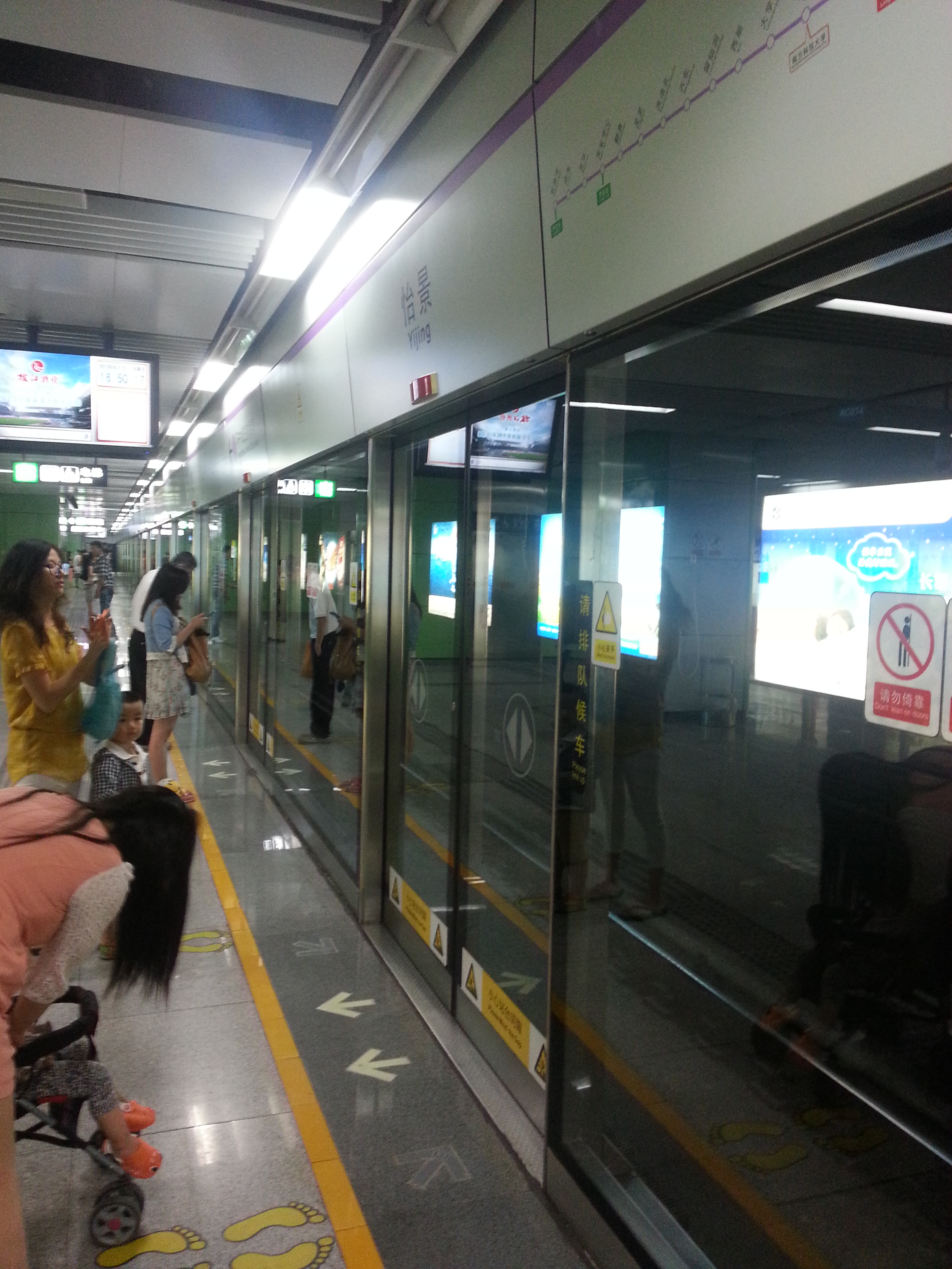 Shenzhen Metro Yijing Station platform